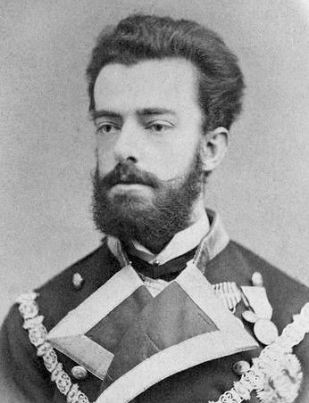 Amadeo I, King of Spain